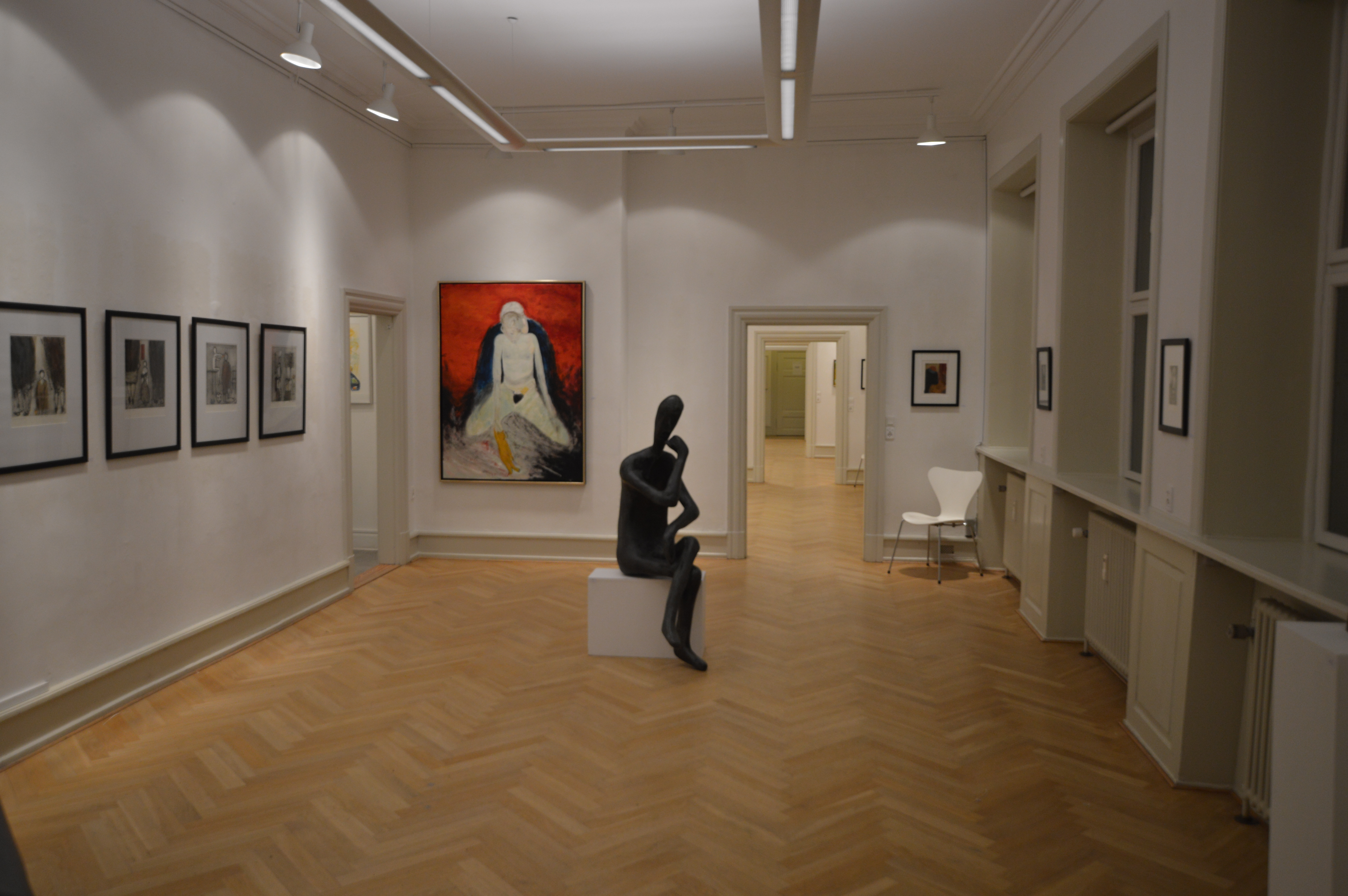 Soloexhibition by the Artist Heike Arndt , at Palæet in Roskilde,Denmark